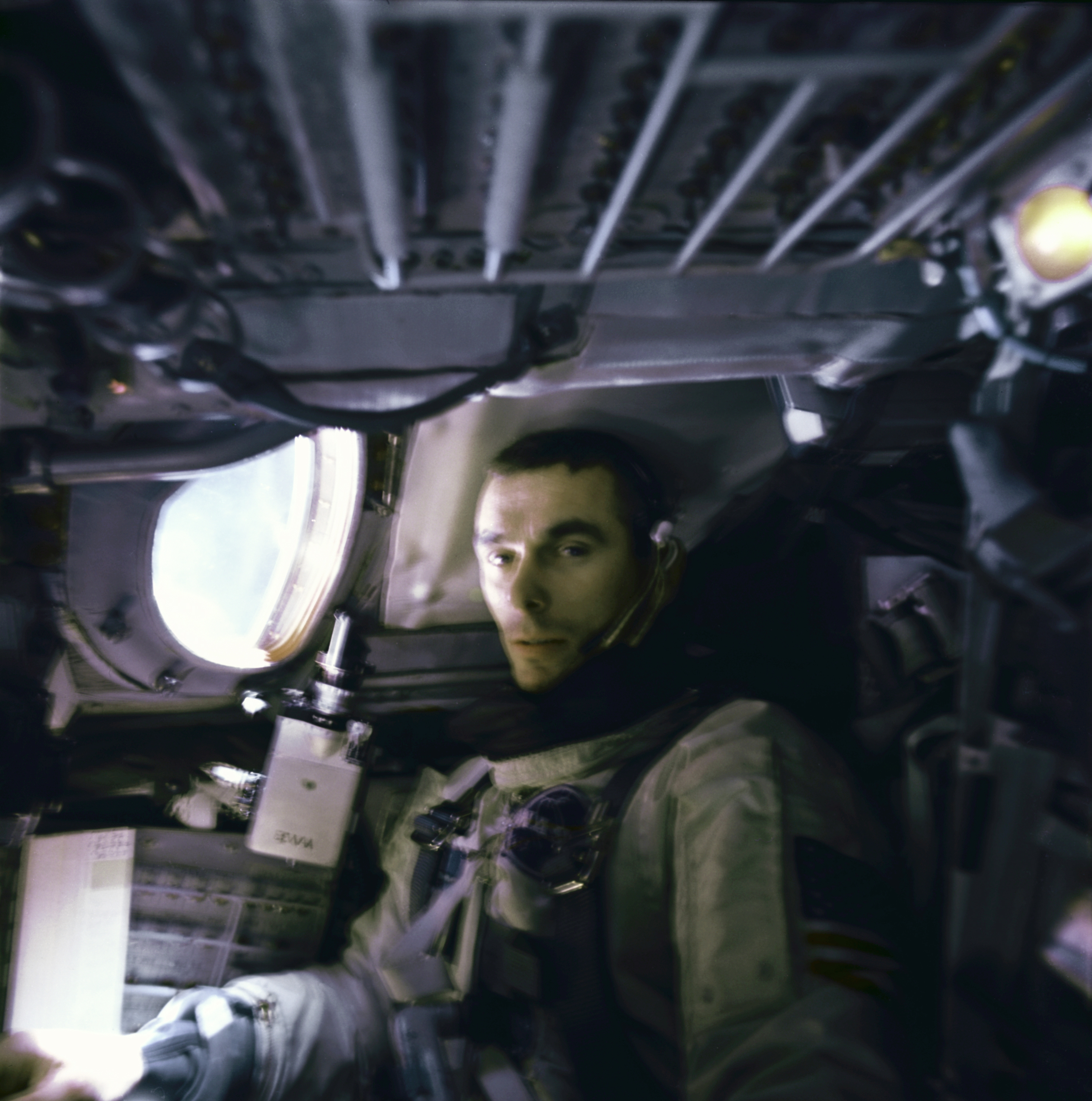 Astronaut Eugene A. Cernan, pilot of the Gemini 9A mission is photographed inside the spacecraft by the command pilot, astronaut Thomas P. Stafford during flight.